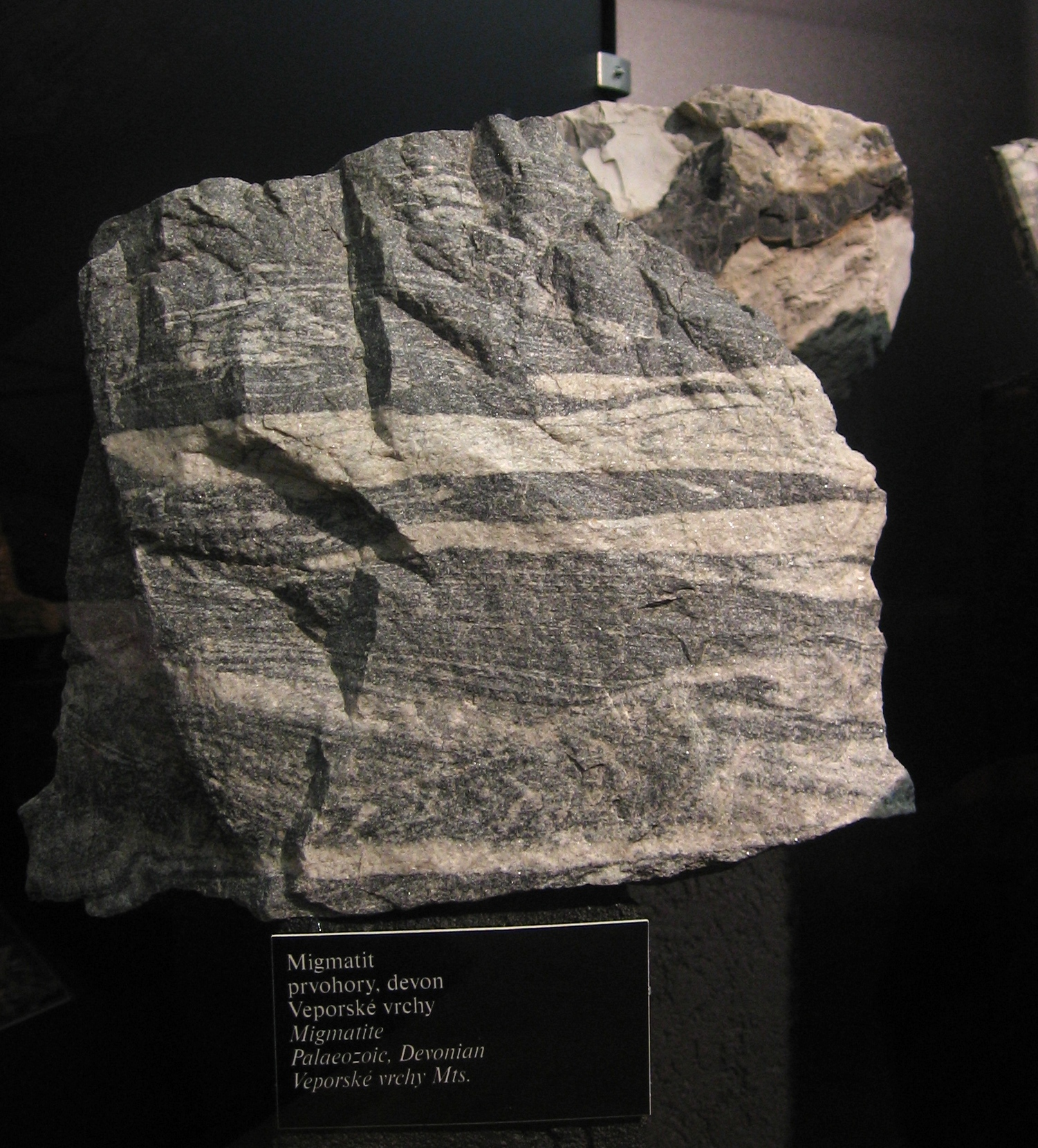 Migmatite, Veporské vrchy Mts. (Western Carpathians, Slovakia), Veporic Unit, Devonian. Photo taken at the National Museum in Bratislava.